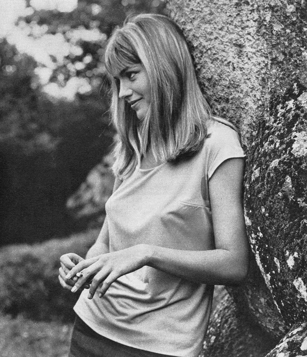 Gardens of Bomarzo ("Park of the Monsters") in Viterbo, Italy, summer 1963. French-Italian actress Catherine Spaak smoking a cigarette in a break on the set of the film La noia directed by Damiano Damiani (1963).